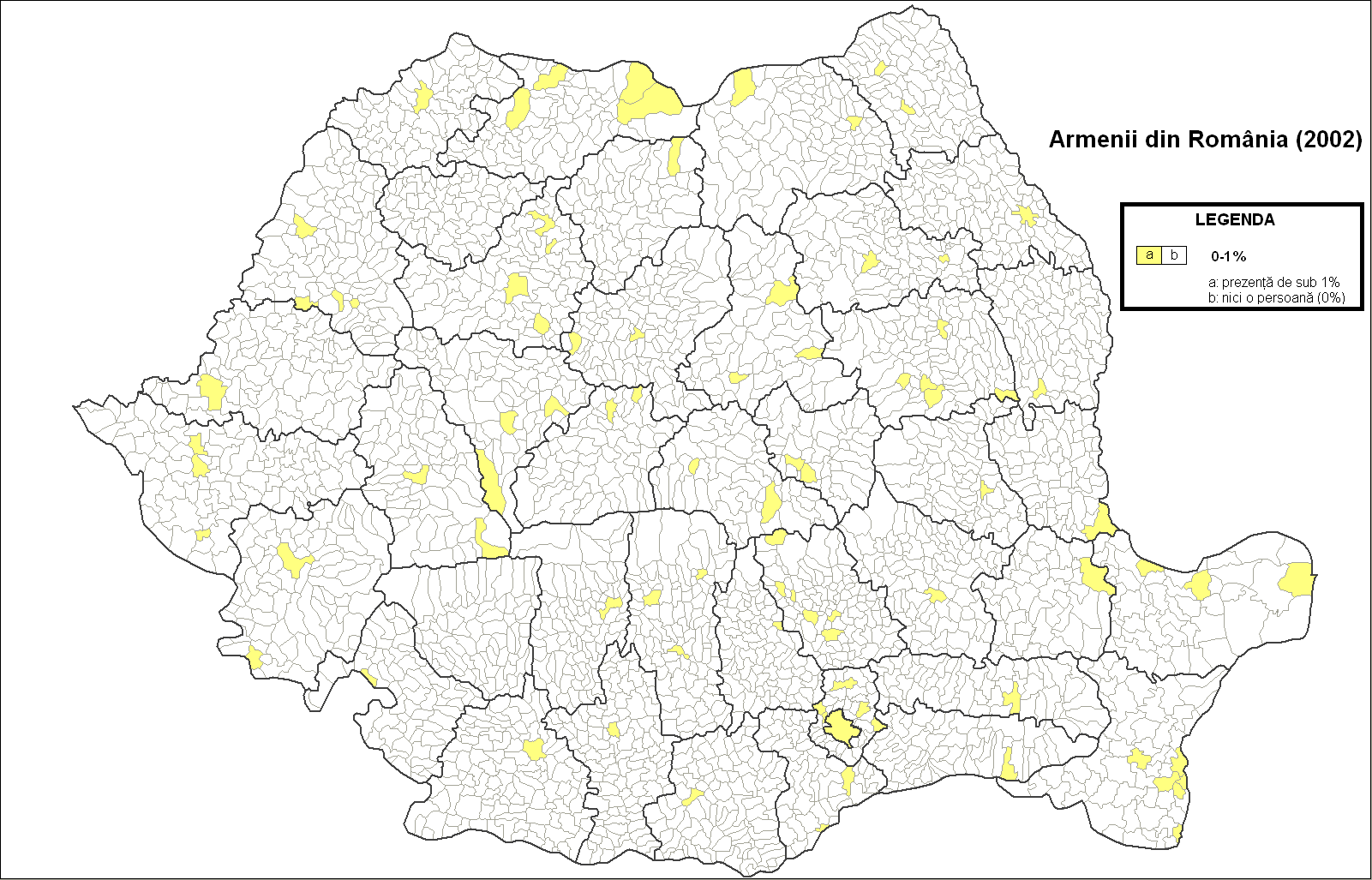 The distribution of the Armenians in Romania (census 2002)